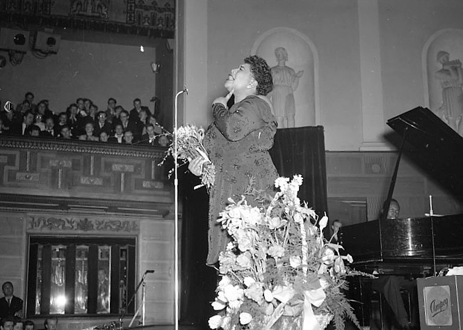 FOTOGRAFI Hötorget 8, Konserthuset, Stora salen. Jazzkonsert. Ella Fitzgerald med band på scenen. 1952-1952FOTOGRAF: Karlsson, Yngve (Fotograf). Svenska DagbladetBILDNUMMER: SvD 36624Stadsmuseet i Stockholm